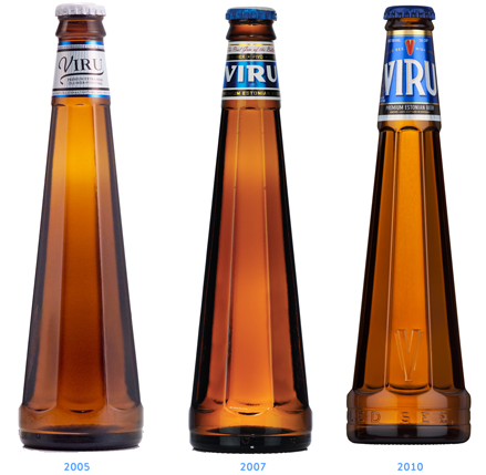 Viru bottle 2005-2012